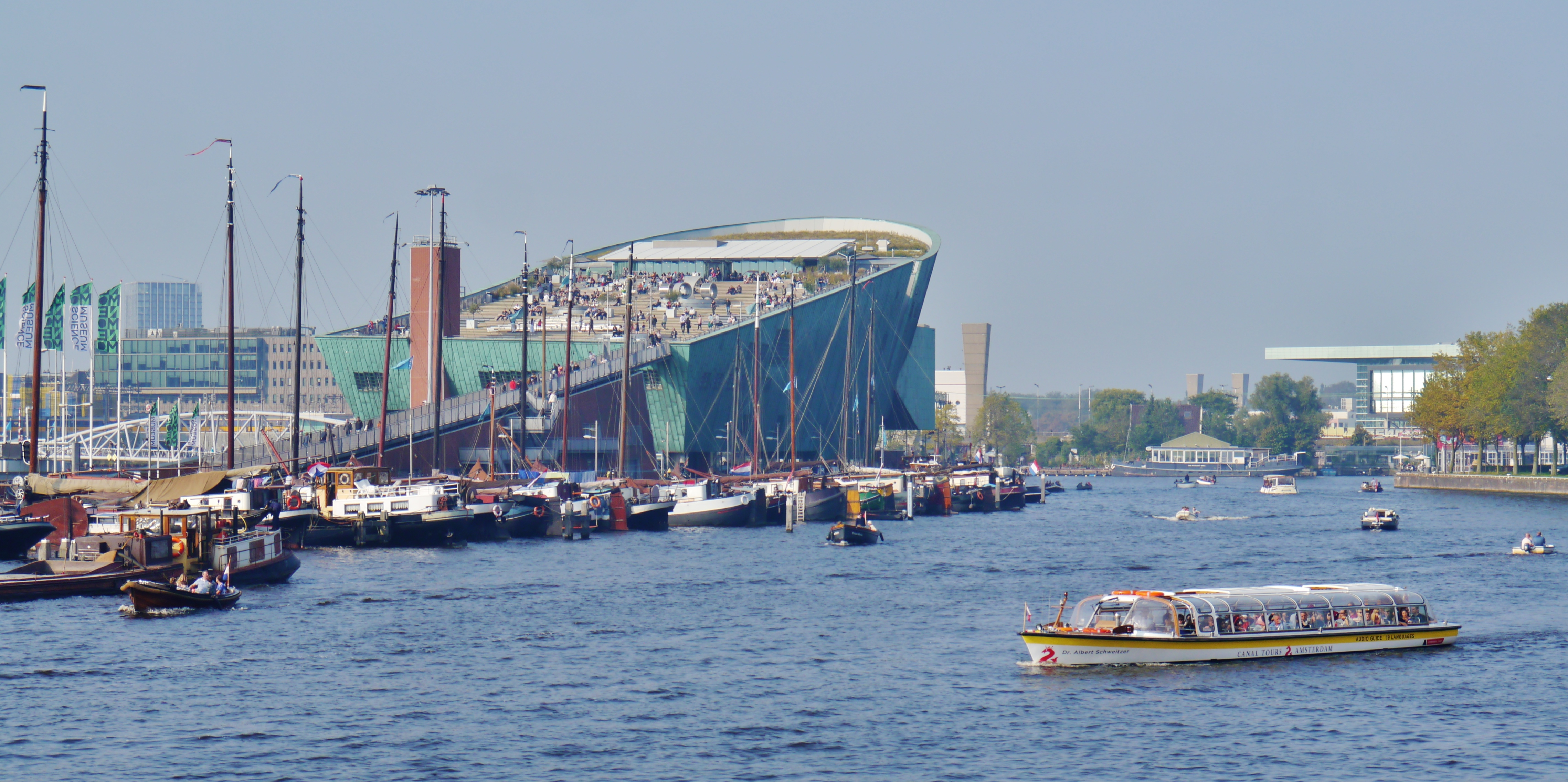 NEMO, Amsterdam, Province of North Holland, Netherlands